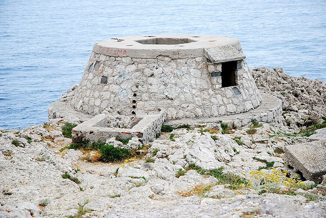 one of the forts